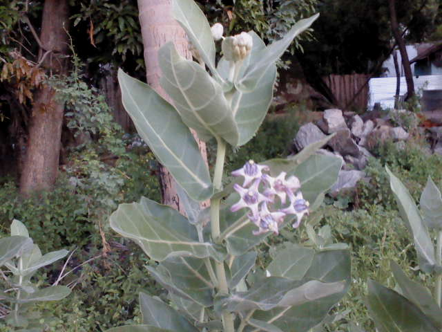 Plants which grow near ponds